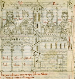 Casauria and his protectors. From the left: King Hugh (ugo rex), King Lambert (lambertus rex), King Lothar (lotharius rex), and King Berengar II (alter berengarius rex). (Bibliothèque nationale de France, Latin 5411, fol. 129v)